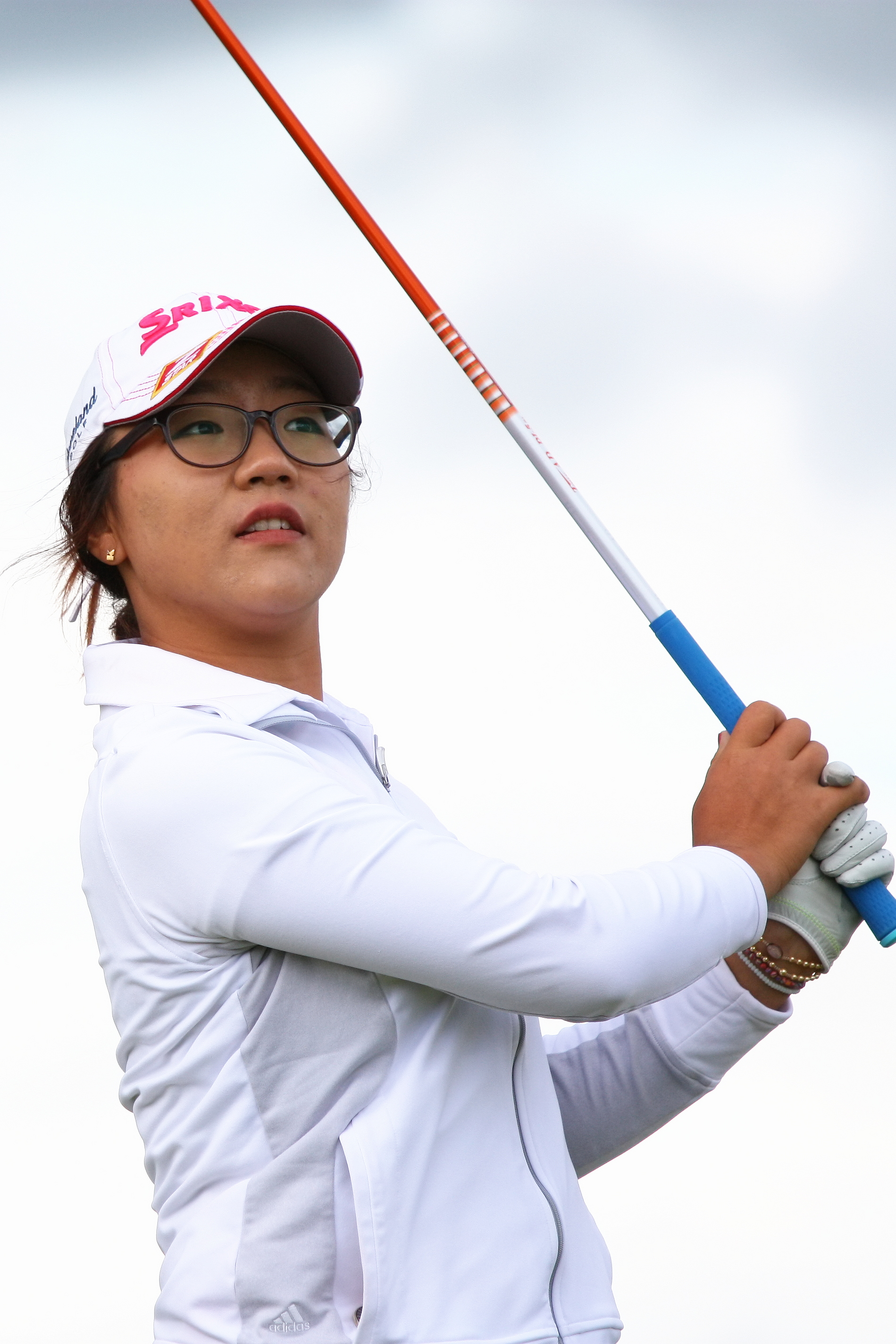 ST ANDREWS, SCOTLAND – JULY 30: Lydia Ko of New Zealand watches her tee shot on 15th hole during pro-am round of 2013 Ricoh Women's British Open held at St Andrews Old Course on July 30, 2013 in St Andrews, Scotland. (Photo by Wojciech Migda)